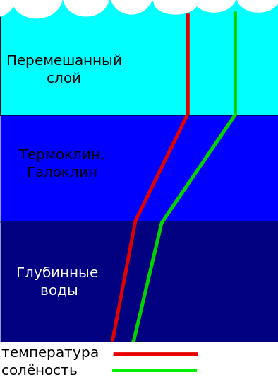 Ocean water structure Структура вод океана